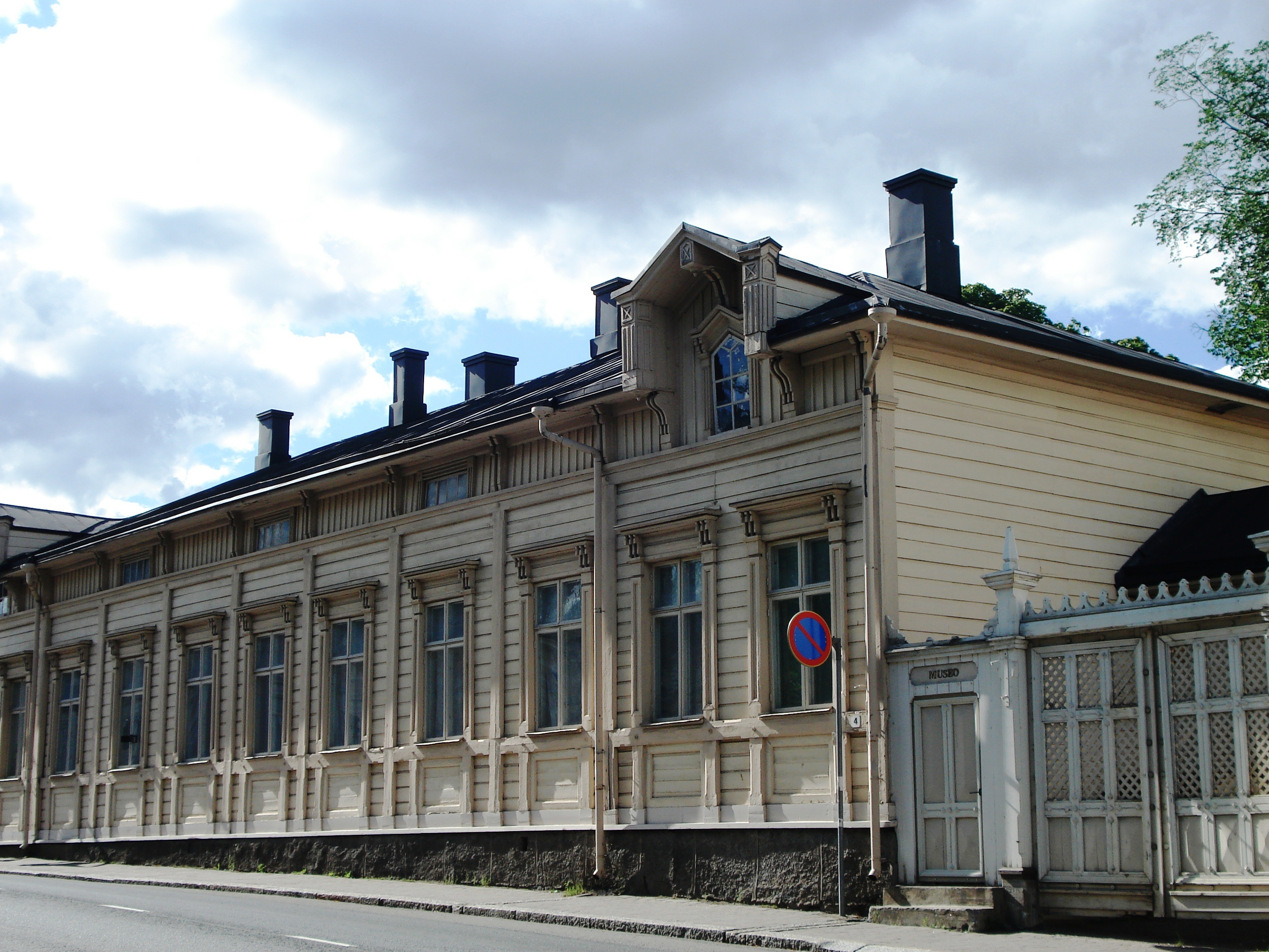 The Palander House in Hämeenlinna, Finland.